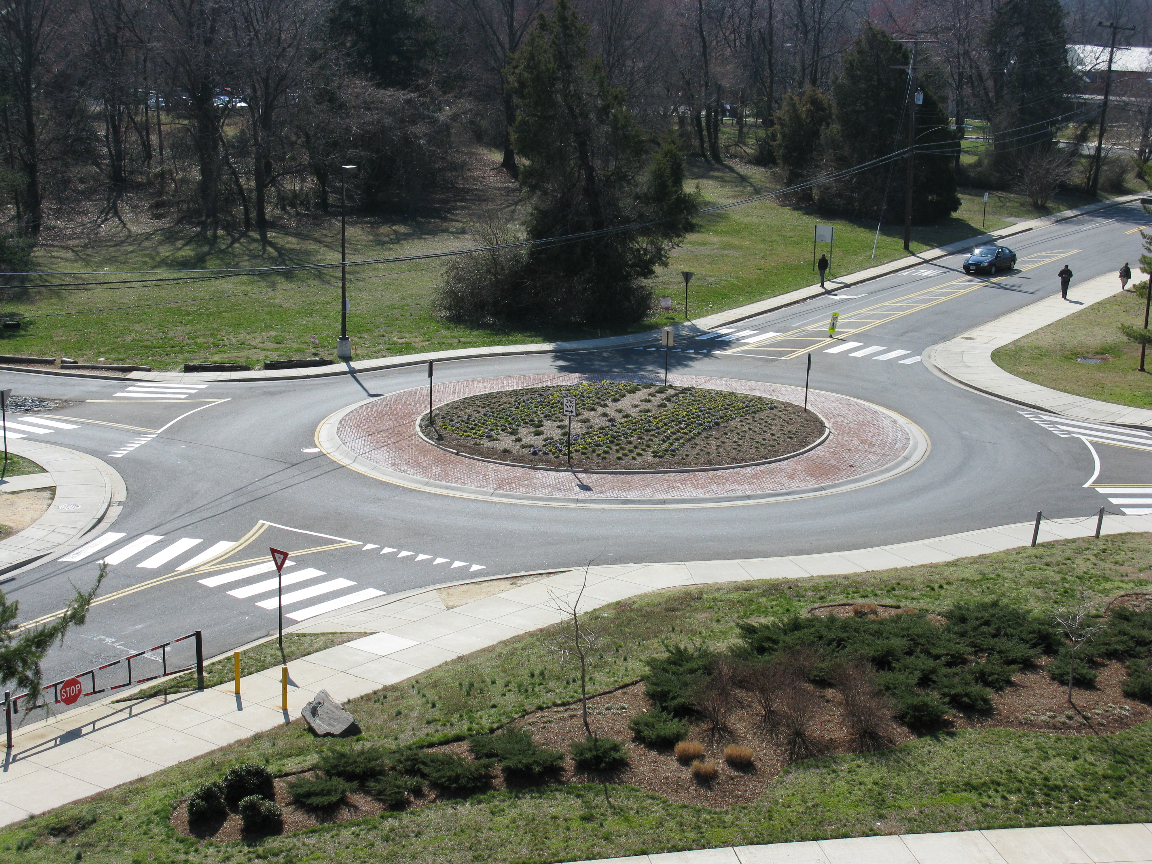 Campus Drive at Mowatt Lane / Valley Drive viewed from the Arts & Sociology Building, University of Maryland, College Park, Maryland